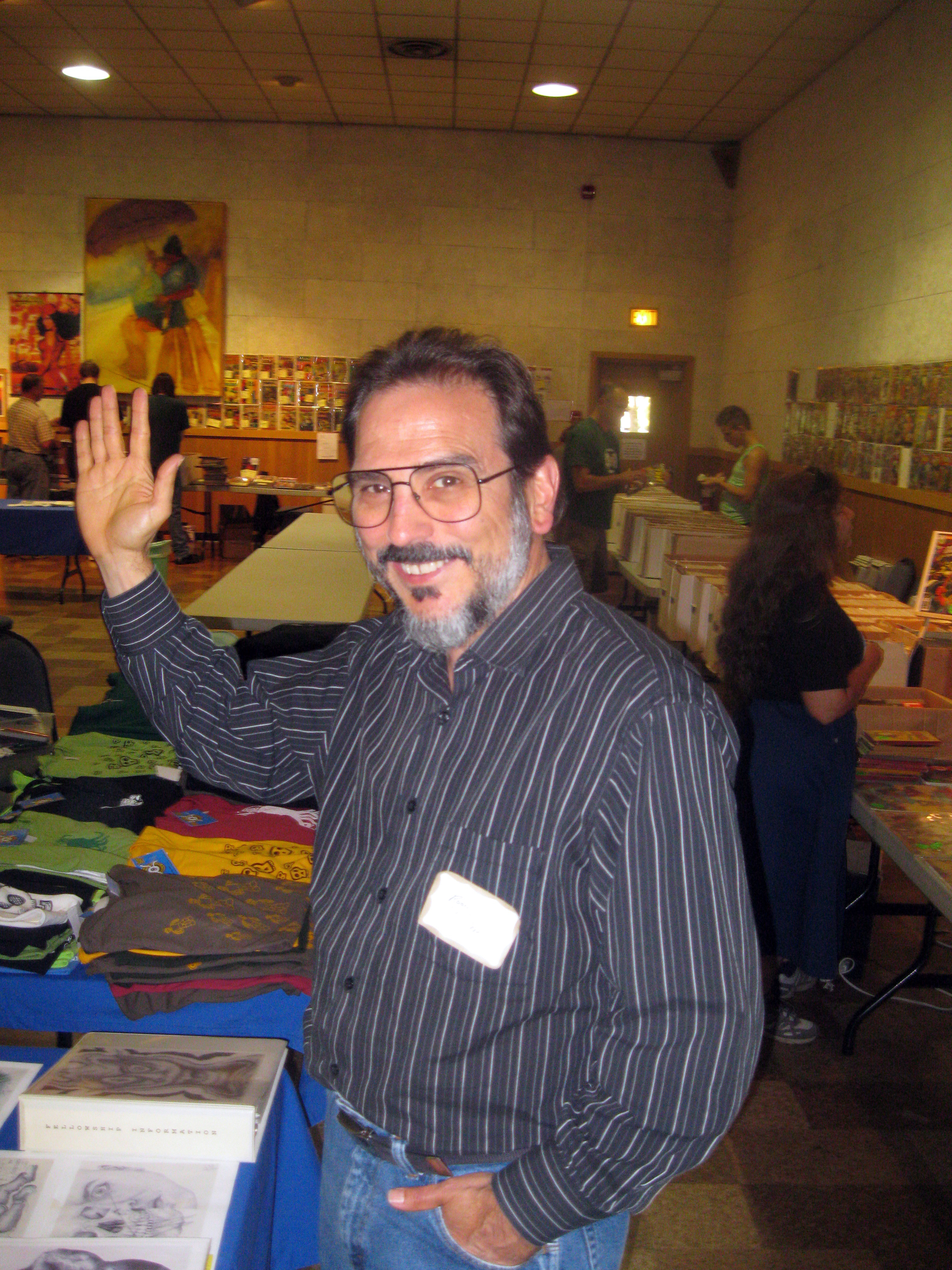 Comic book writer Roger Stern at Ithacon 35, Part II, a semi-annual comic book conventions put on by the Comic Book Club of Ithaca (CBCI) in Ithaca, NY.